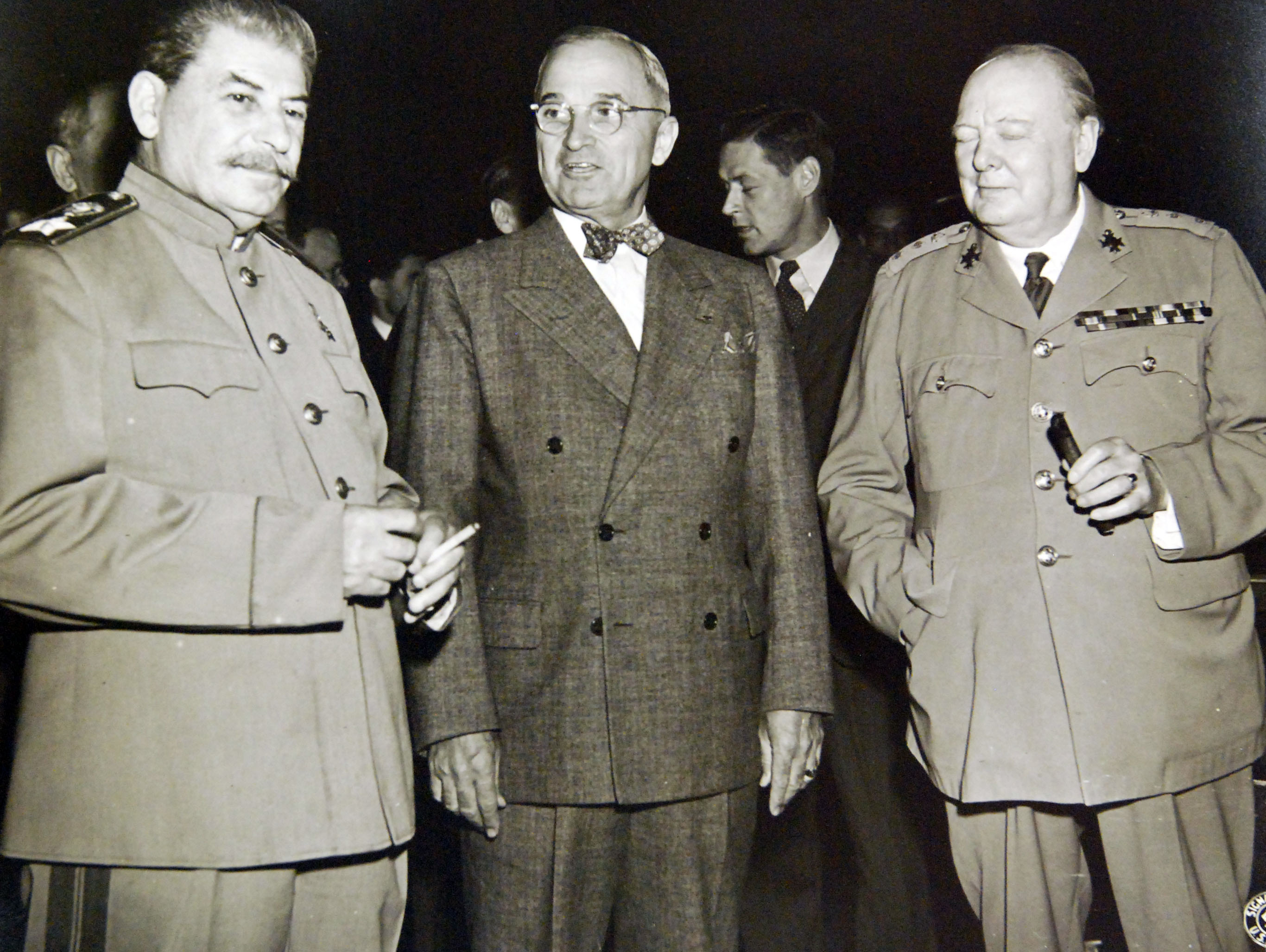 PR-CN-1972-185-Box-2-1: Potsdam Conference July-August 1945. Shown, left to right: General Secretary of the Community Party of the Soviet Union Joseph Stalin, President Harry S. Truman and Prime Minister Winston Churchill. Fleet Admiral William D. Leahy, USN, Collection. Courtesy of the Library of Congress. (2017/06/16).